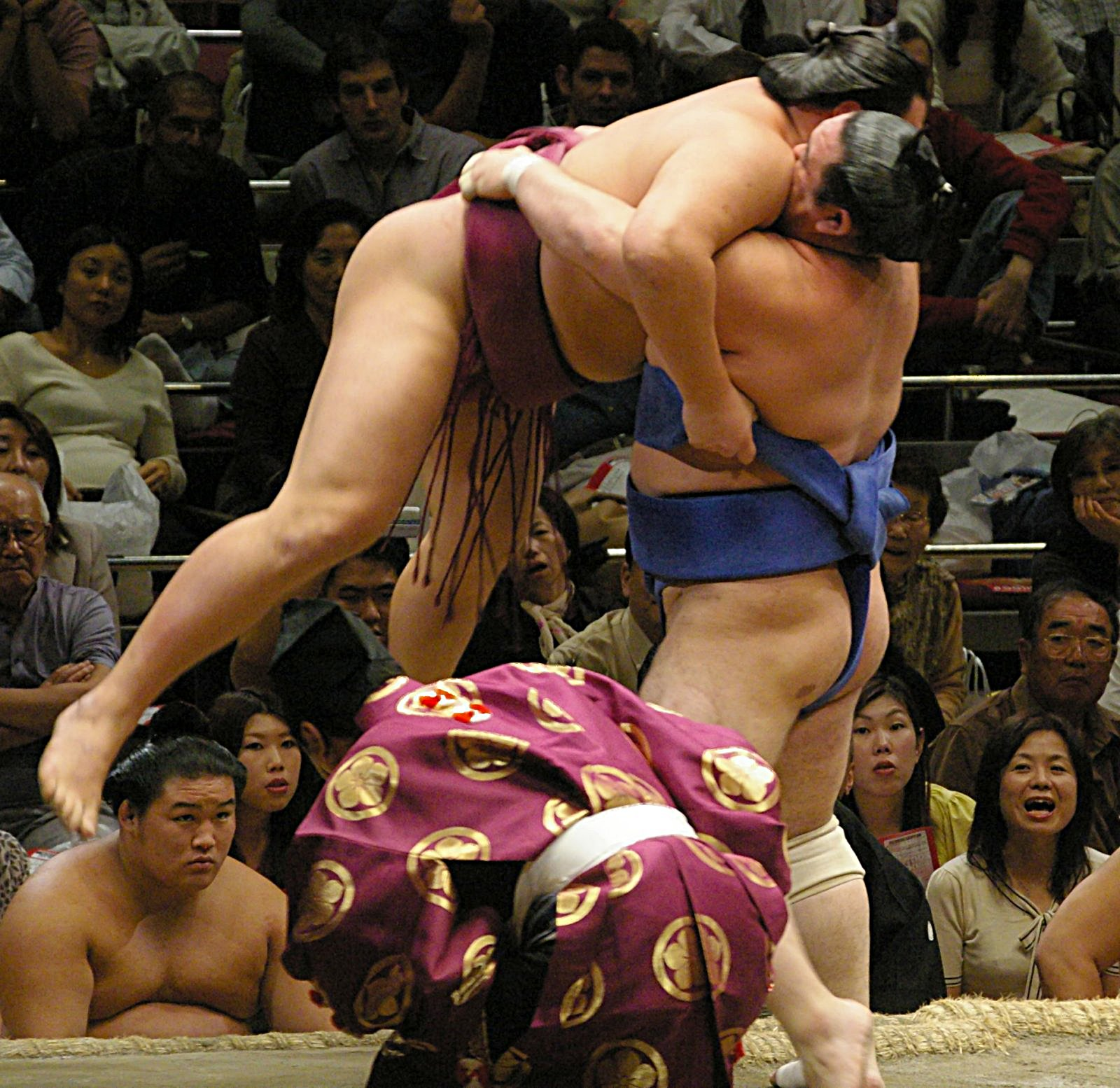 A sumo bout between Wakanosato and (Kyokutenhō ??), Tokyo, October 2007